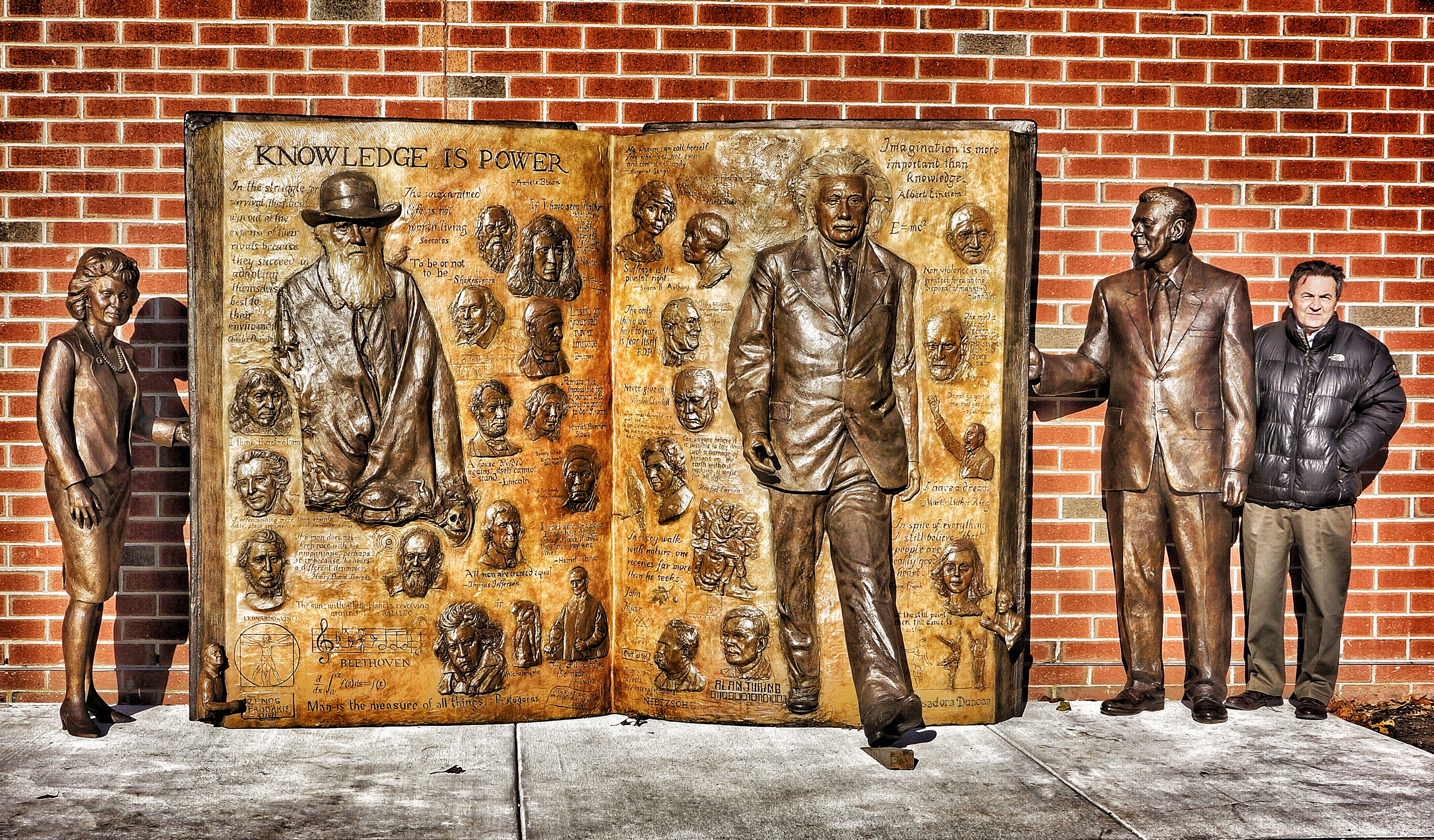 Knowledge is Power" sculpture with artist Zenos Frudakis.